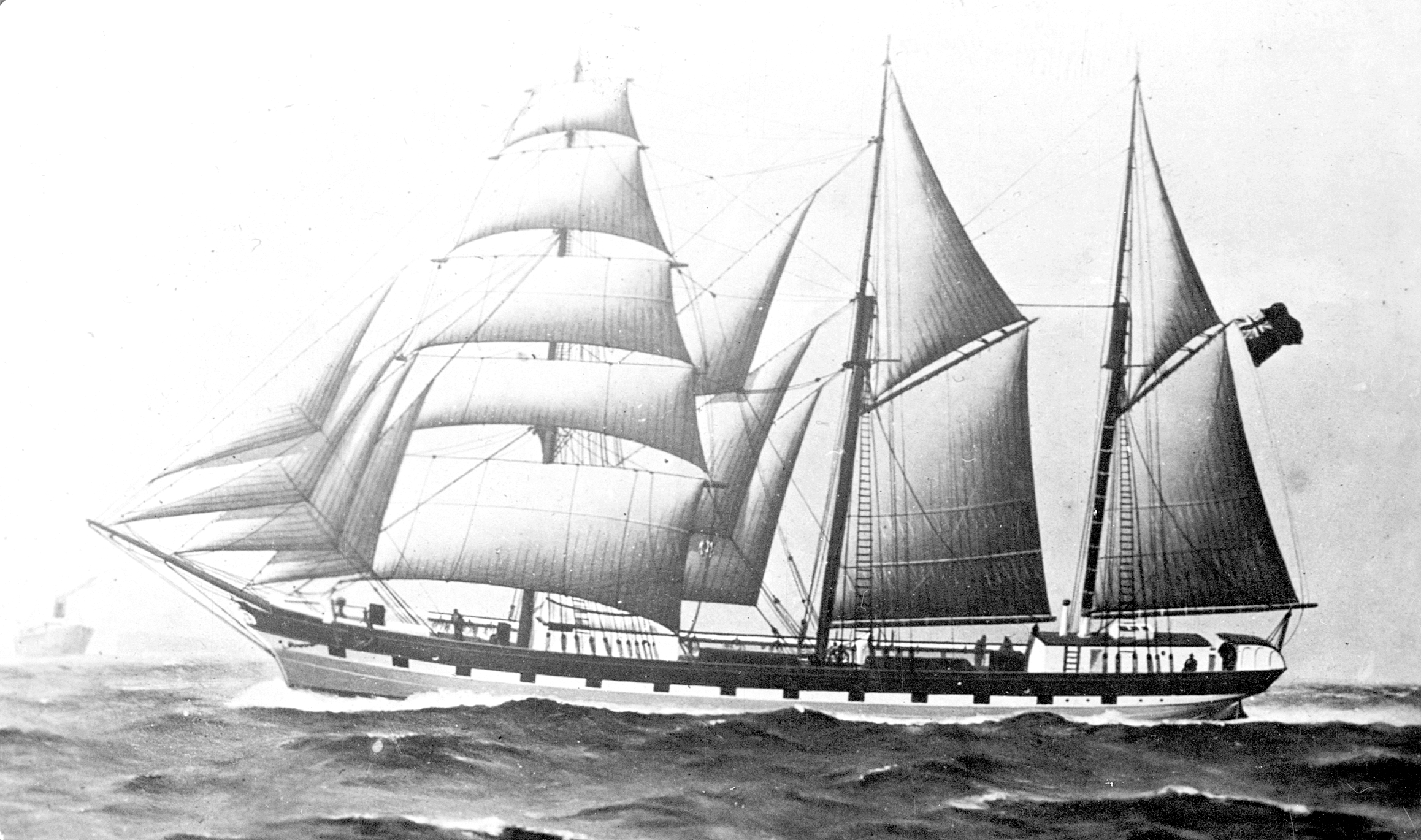 Original caption: “AILSA CRAIG, Three masted barquentine/barkentine.”